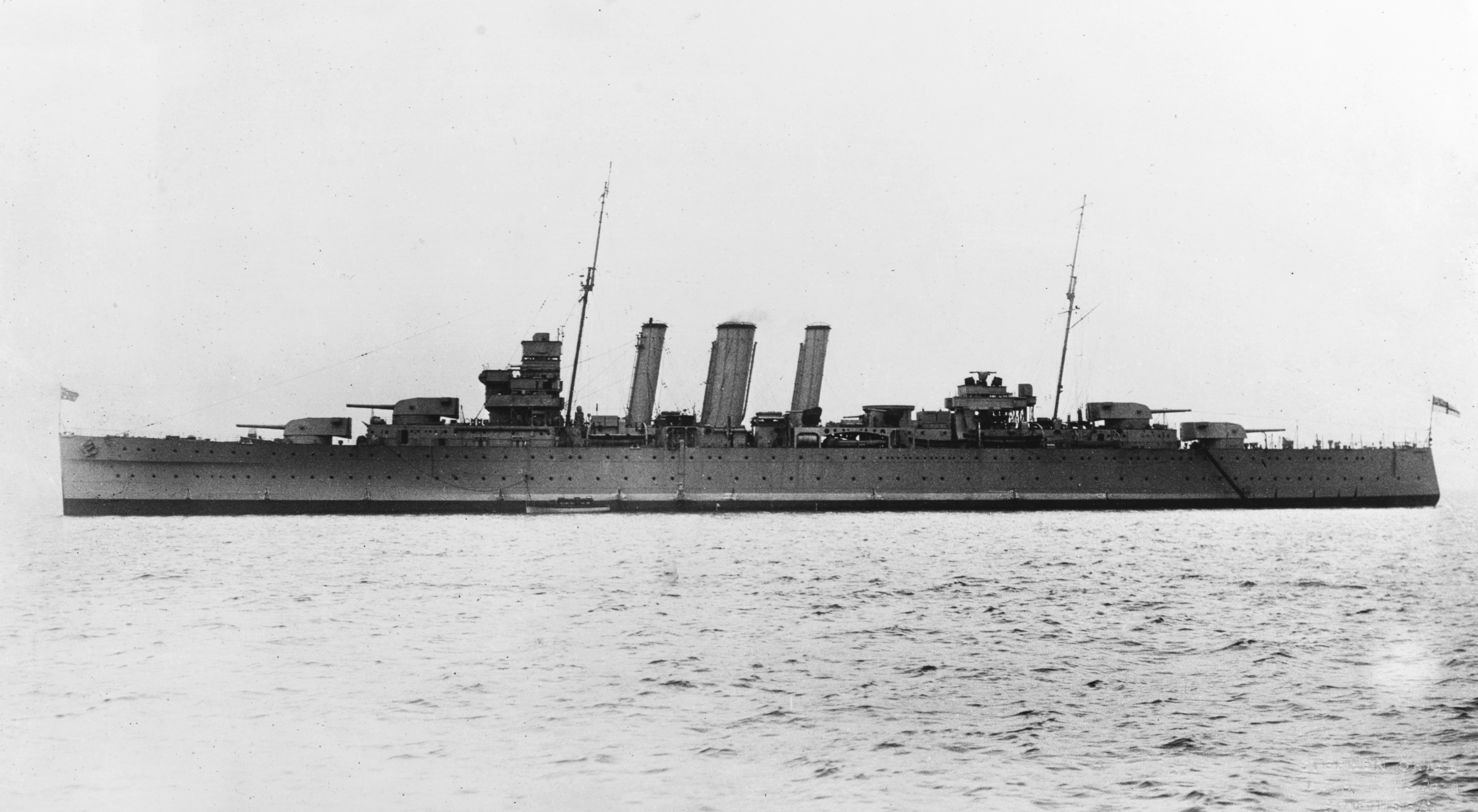 The Royal Australian Navy heavy cruiser HMAS Australia (D84) circa in 1932-1933.